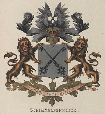 arms of the Schimmelpenninck family, drawing by painter of coats of arms C.W.H. Verster, died Driebergen, 1921